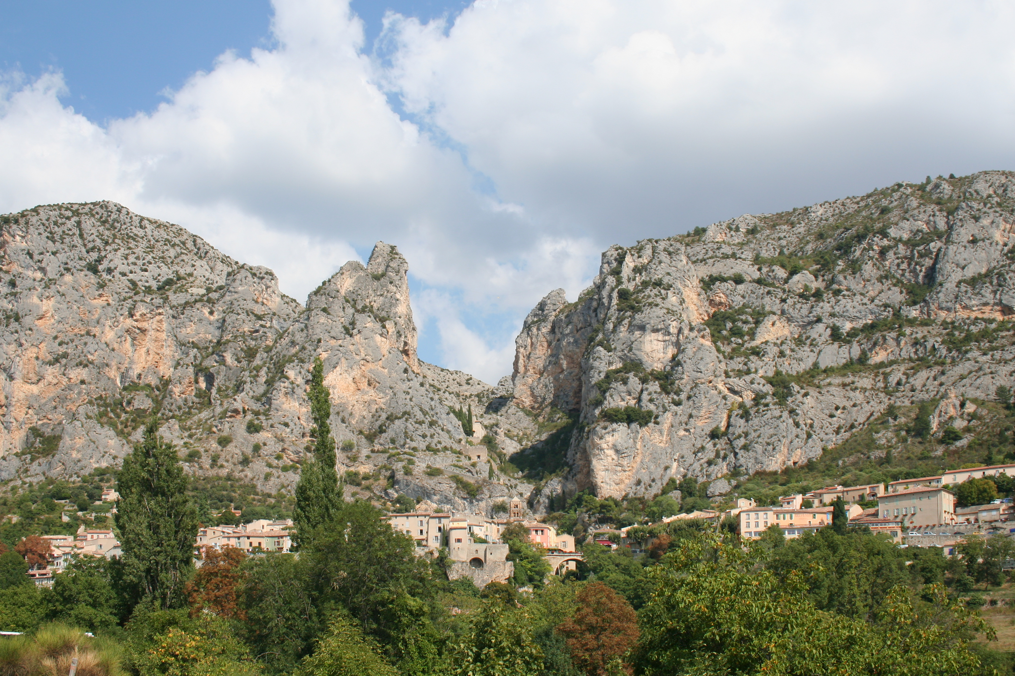 Moustiers-Sainte-Marie